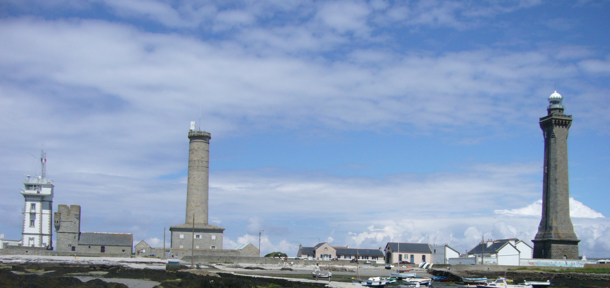 Lighthouses of Penmarc'h